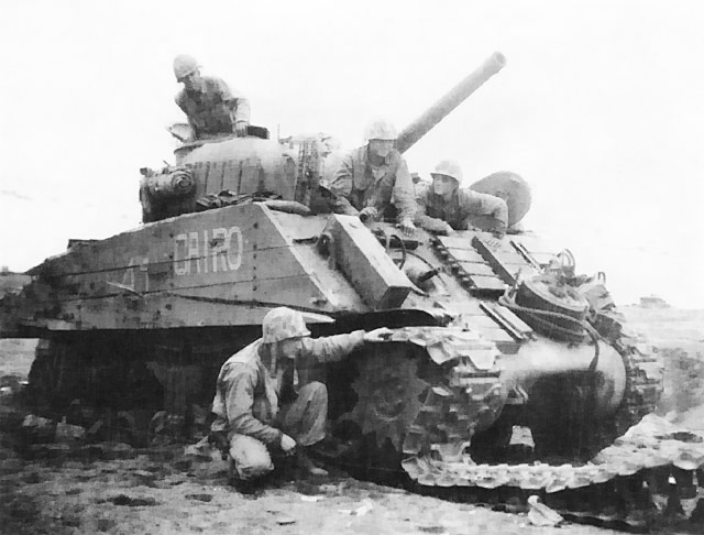 This Sherman Tank was disabled by a land mine and five hits by Japanese artillery at Iwo Jima, but the crew escaped uninjured. Note heavy planking on side to protect against magnetic demolition charges